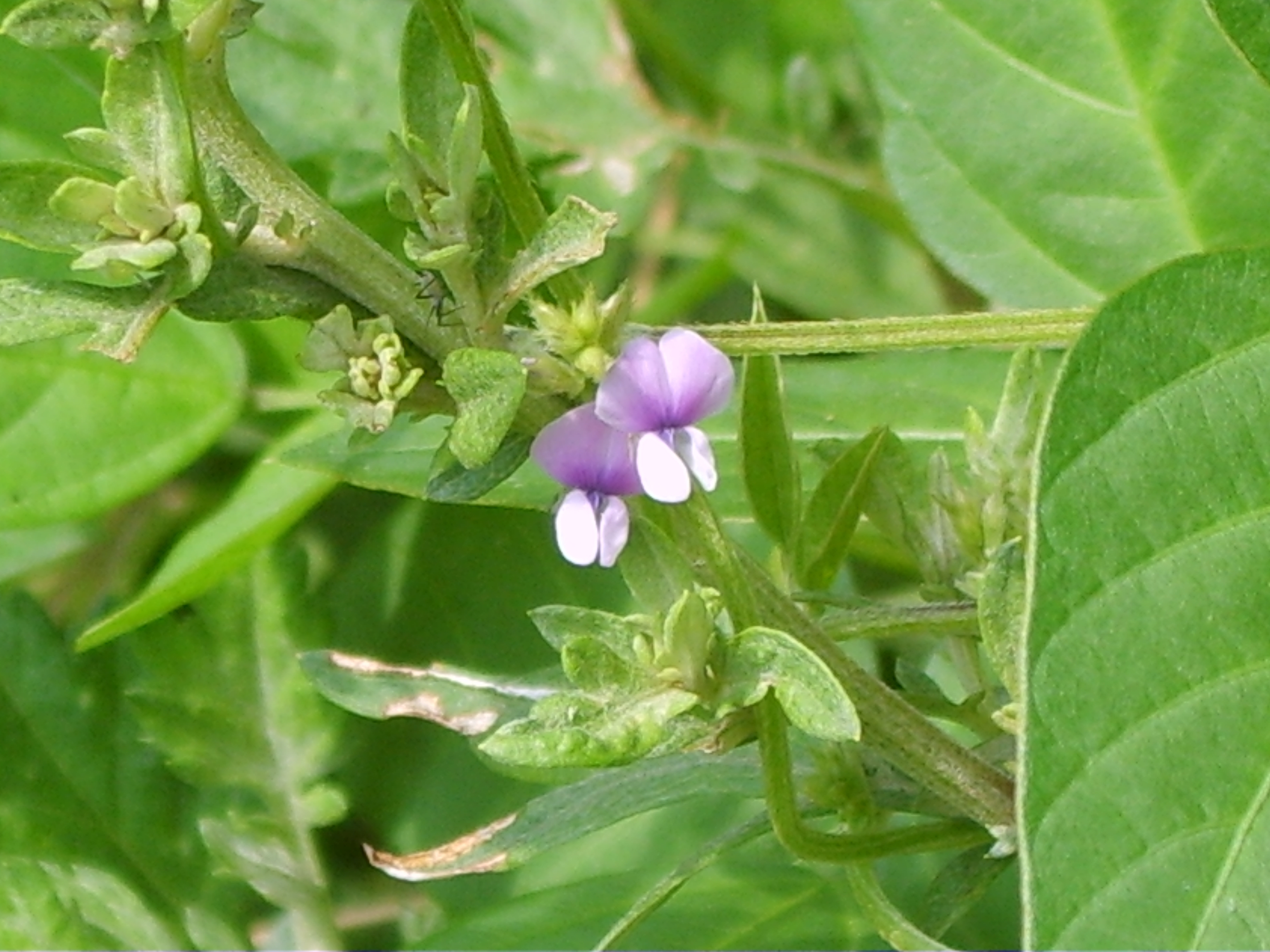 Glycine soja in Woninjae, Korea